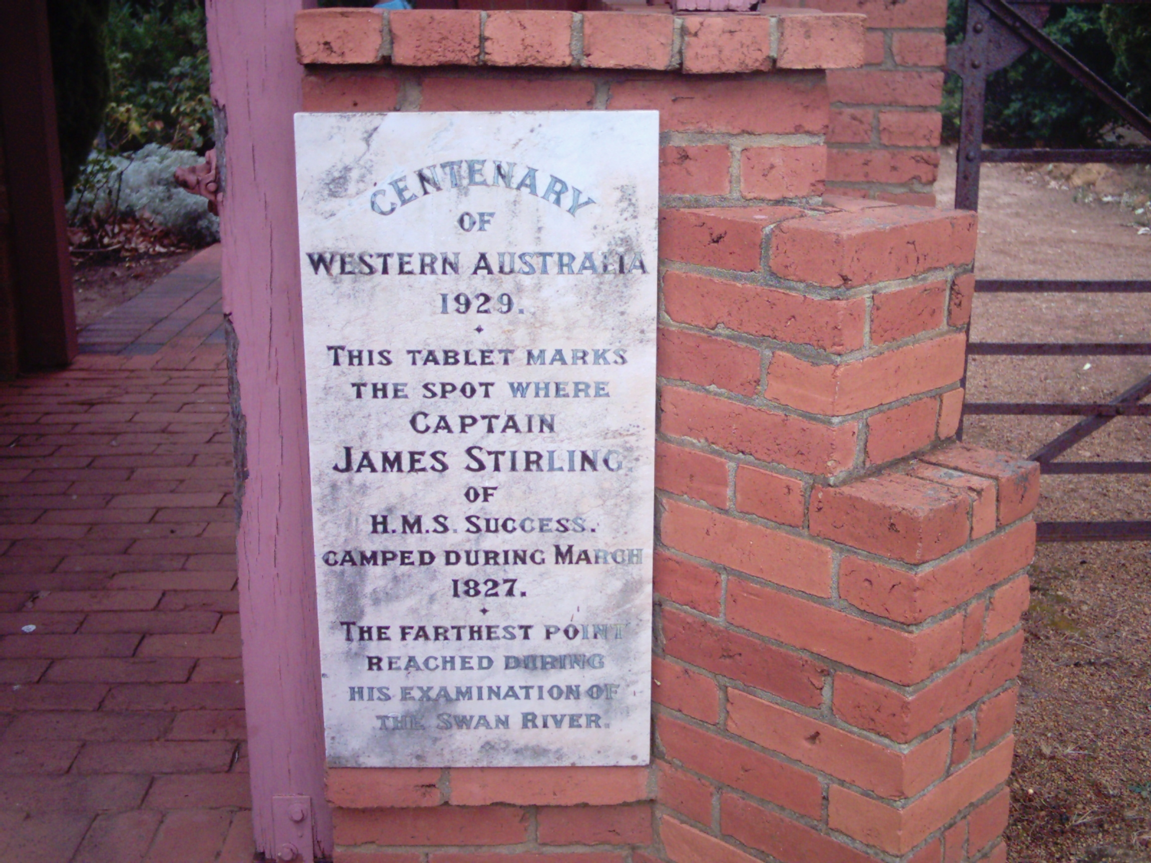 Centenary stone laid to commemorate the 100th year of WA colony at Captain Stirling 1827 exploration the camp site on the conlfux of the ellen brook and the swan river.